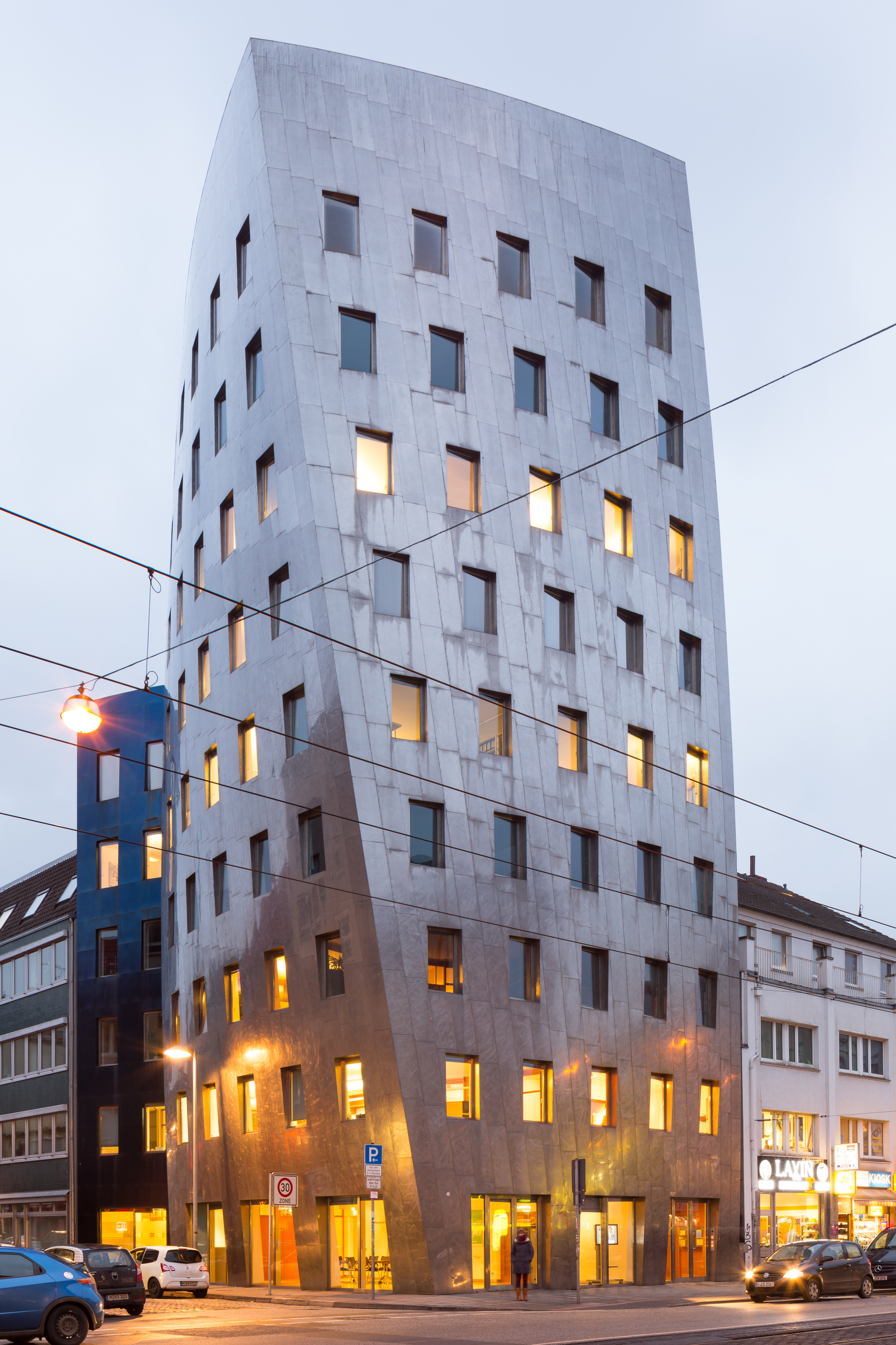 Office building Gehry-Tower located at Goethestrasse and Reuterstrasse in Mitte quarter of Hannover, Germany.